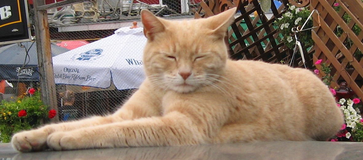 The Feline Mayor of Talkeetna, Alaska